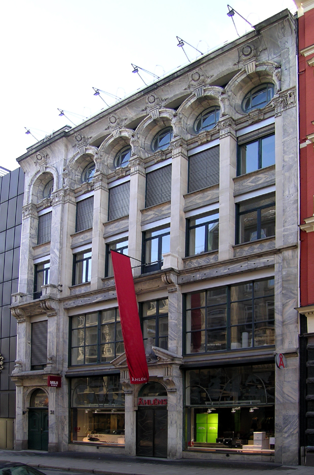 Kongens gate 31, Oslo. Built 1894. Architect: Herman Backer.